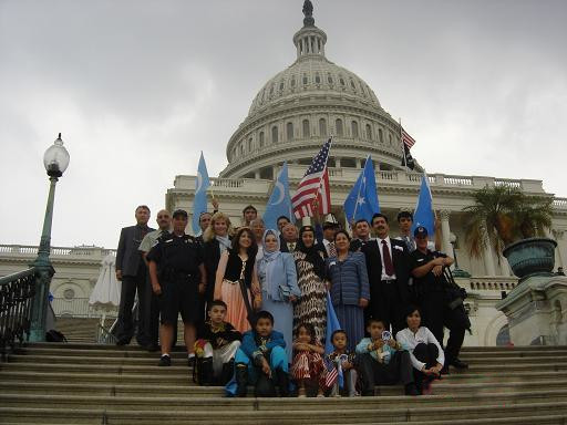 ETGIE members at Capitol Hill-09/14/2004